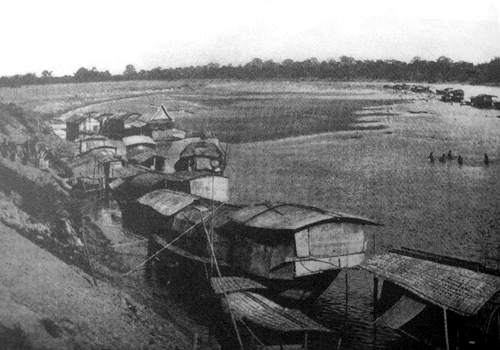 Nan River in Tha Sao & Khung Taphao in 1910 or 1920.Location: Khung Taphao subdistrict & Tha Sao subdistrict, Mueang Uttaradit, Uttaradit Province, Thailand. Karl Doehring. (1920). The Country and People of Siam. London : White Lotus Co Ltd. ISBN 978-9748434872